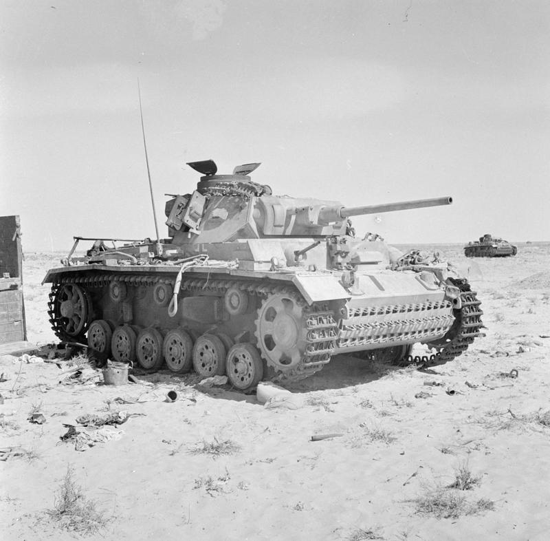 War Office Second World War Official Collection